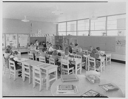 Title: Highland School, Roslyn, Long Island. Abstract/medium: Gottscho-Schleisner Collection (Library of Congress) Physical description: 1 negative